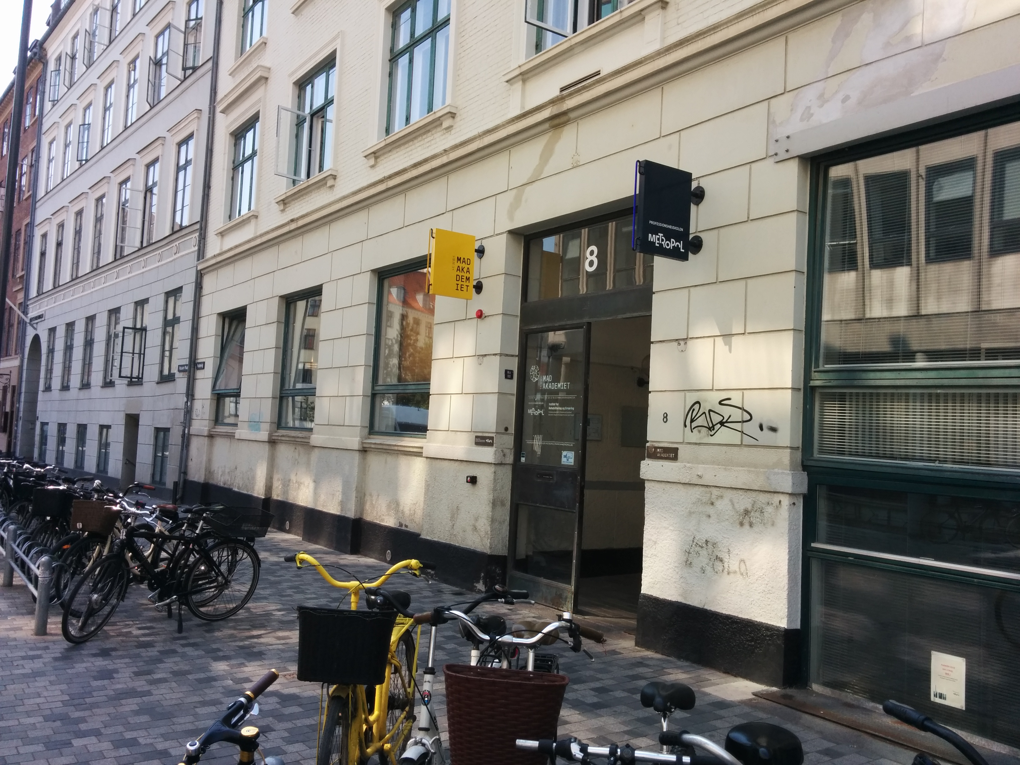 Suhrs Madakademiet (tidligere Shurs Husholdningsskole), billede taget fra Pustervig.